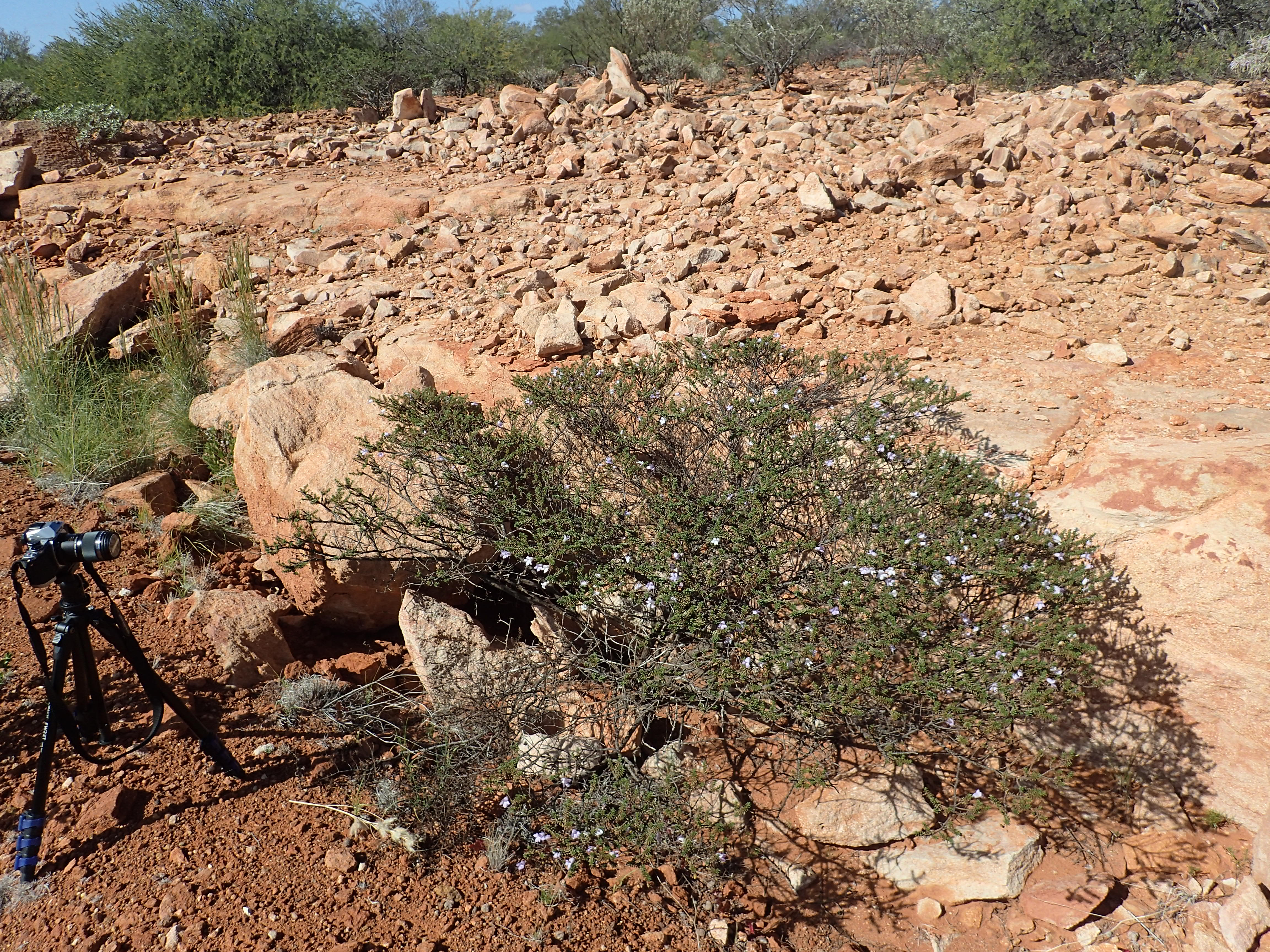 Eremophila exilifolia growing 7km east of Dairy Creek